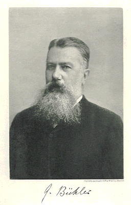 Georg Bühler (1837-1898), eminent German Sanskrit scholar. This image is now too old to be subject to copyright restrictions.